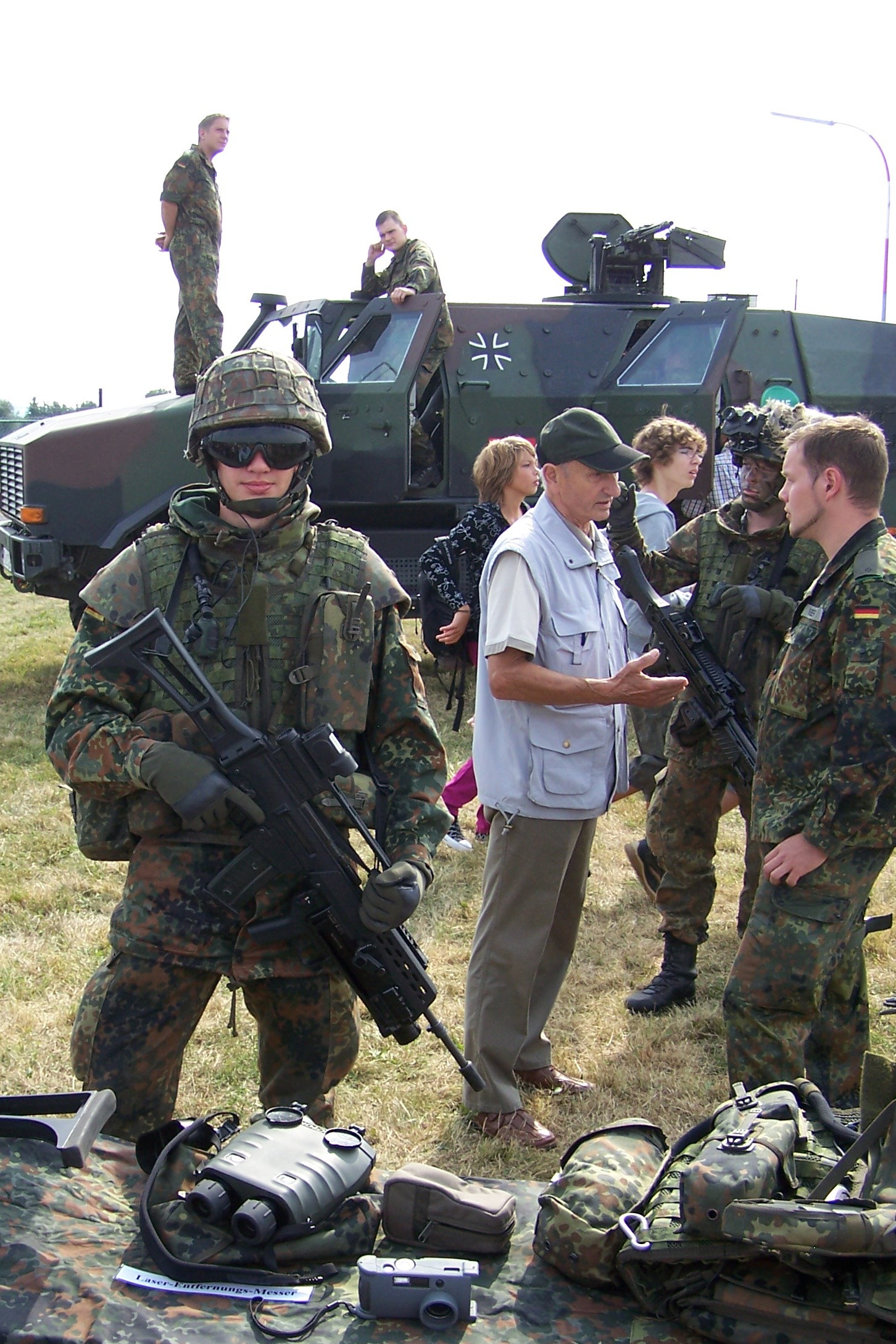 A German Army soldier demonstrating the equipment of the IdZ program